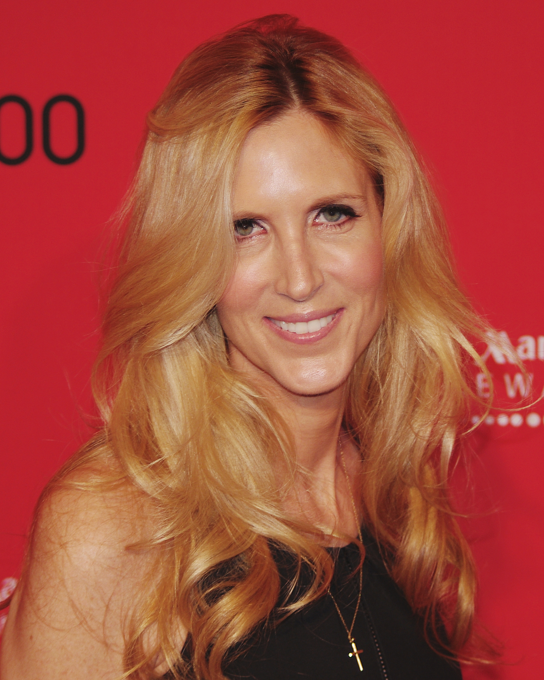 Ann Coulter at the 2012 Time 100 gala.